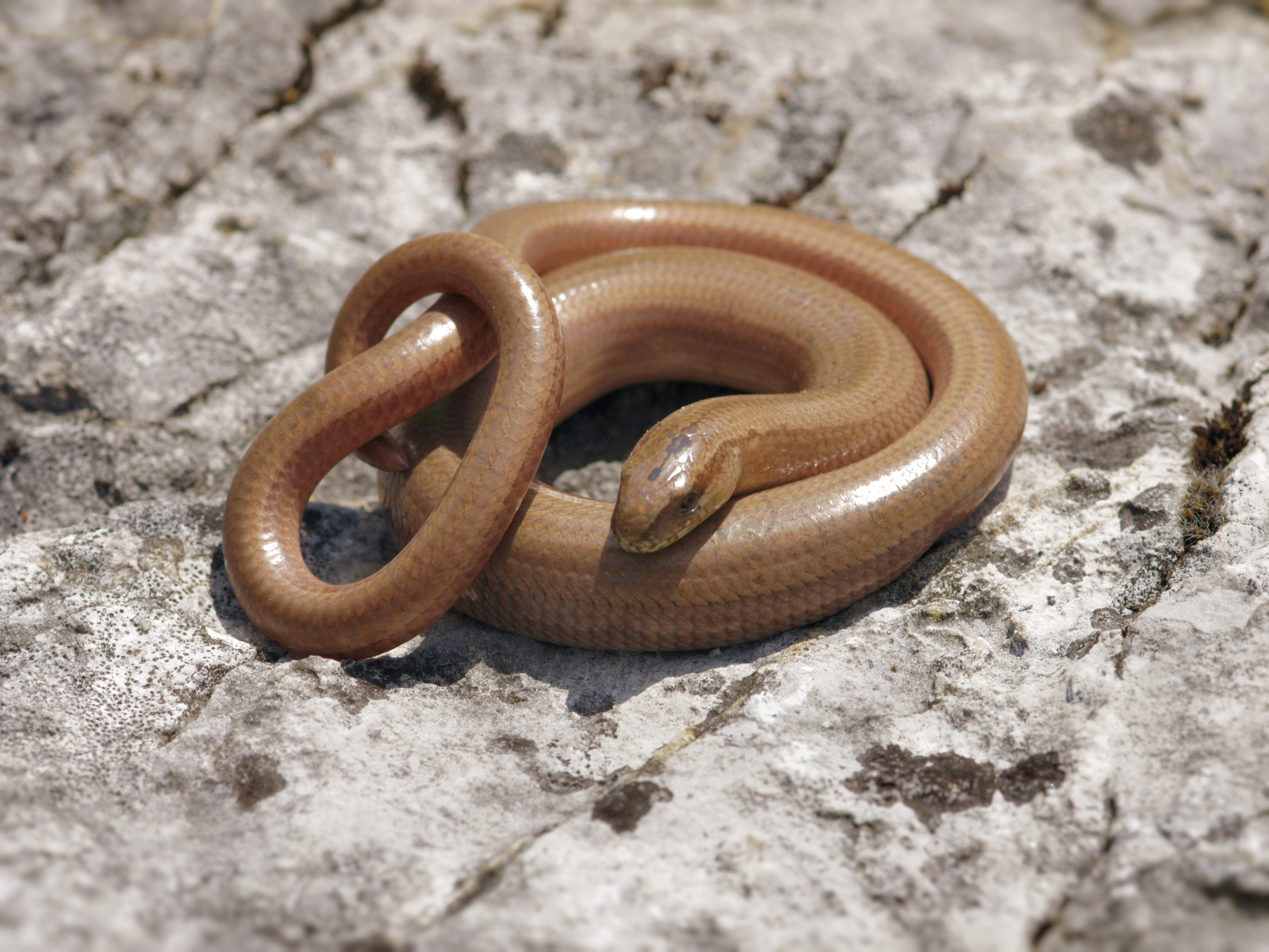 Slow-worm close to Nismes